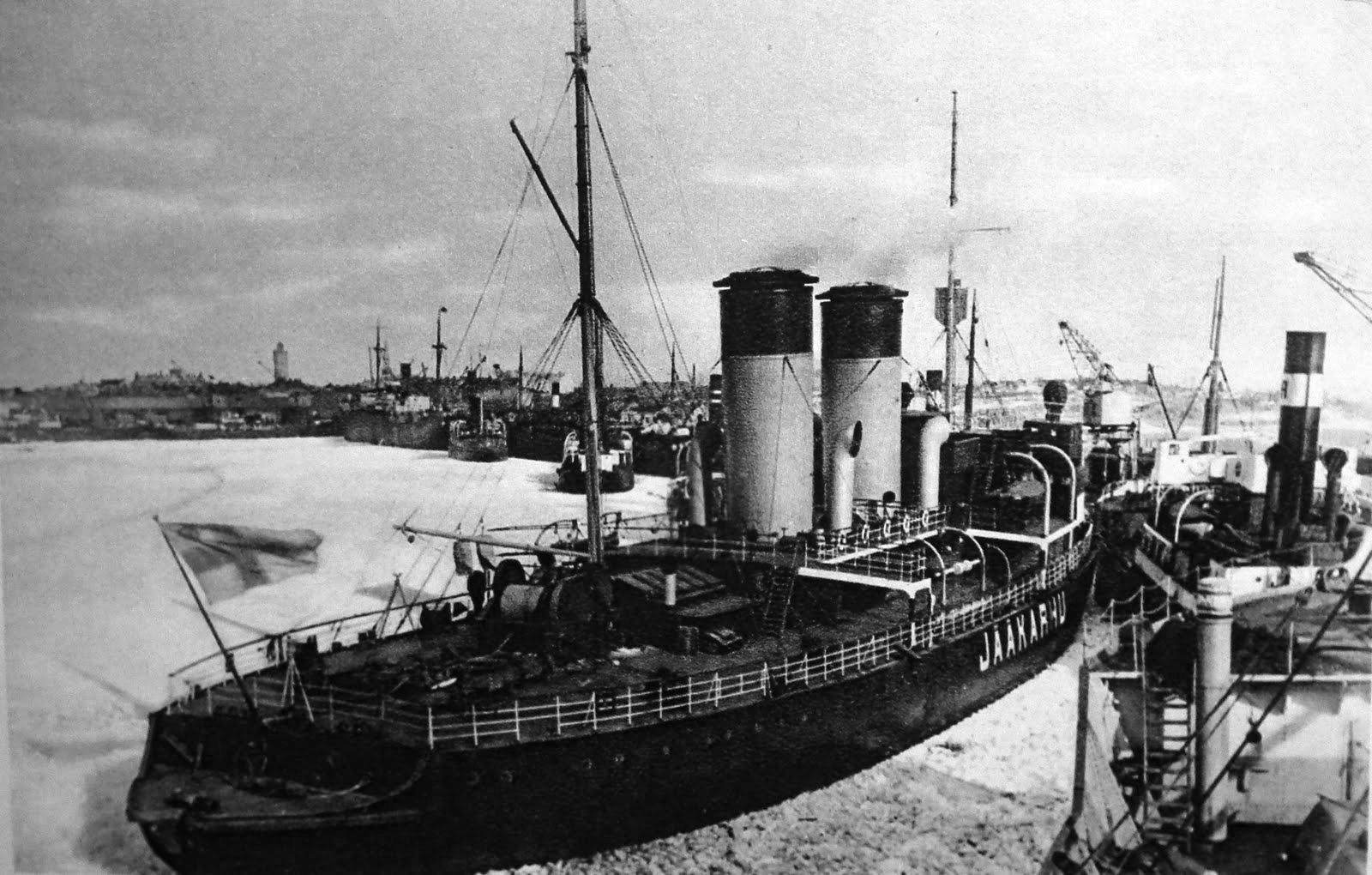 Finnish icebreaker Jääkarhu in the port of Hanko in the 1920s. Converted to black and white from the original file.